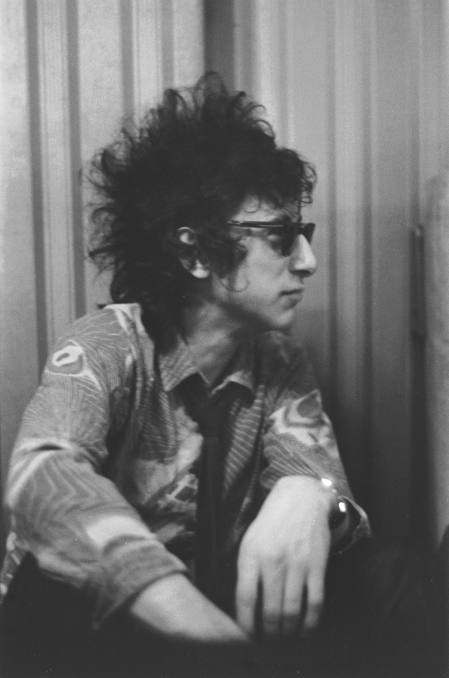 John Cooper Clarke, Cardiff, 1979